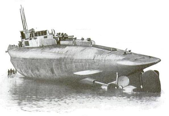 Photograph of a British K-boat submarine being launched circa 1919.